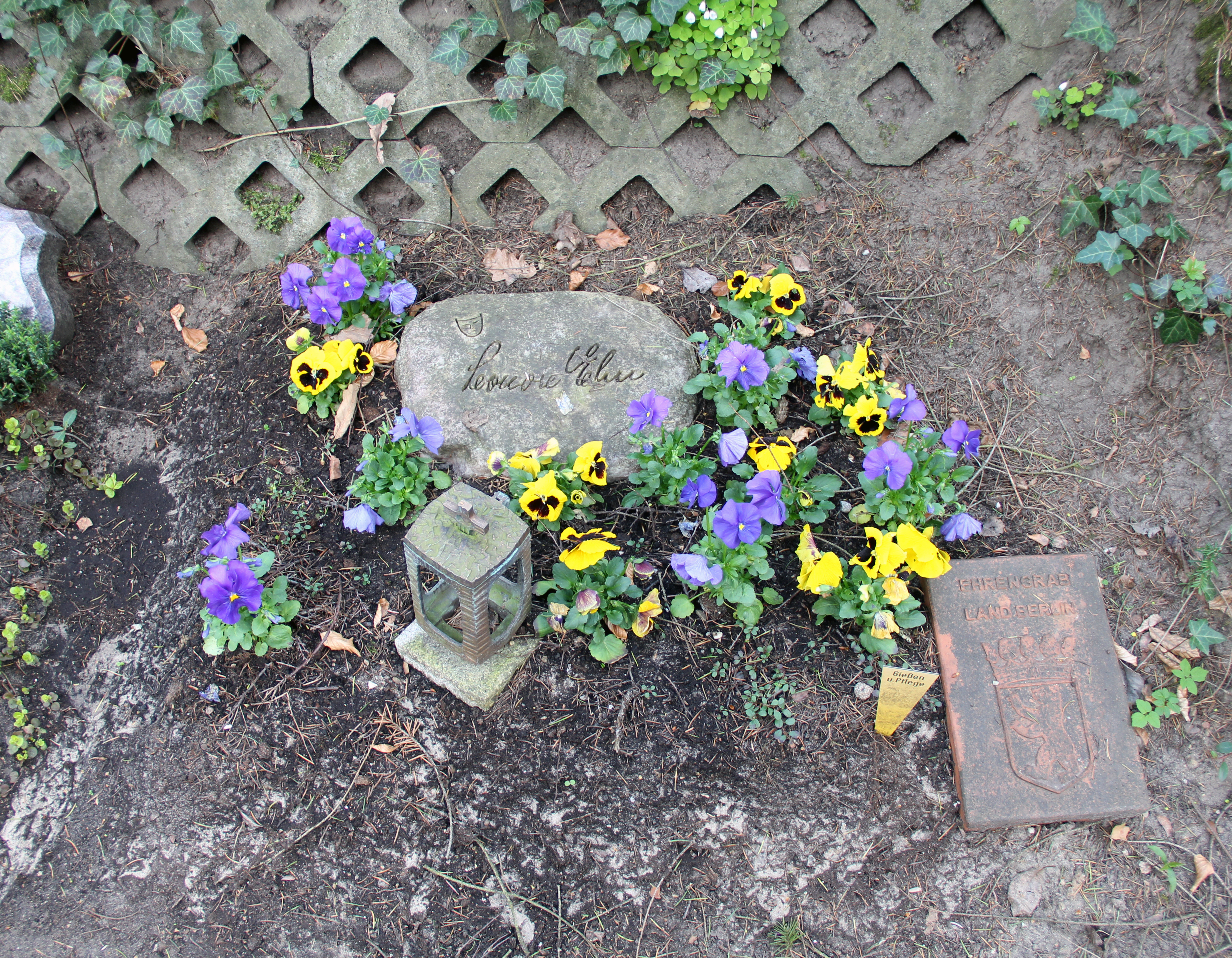 Grave of honor, Leonore Ehn, Trakehner Allee 1, Berlin-Westend, Germany